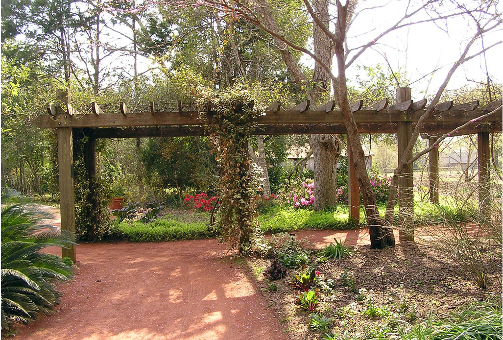 The rose arbor on the grounds of Bland Cottage at Georgia Southern Botanical Garden a part of Georgia Southern University in Statesboro, Georgia. Photograph taken by Richard Chambers on March 11, 2007 while sauntering about the grounds looking for appropriate photos to put into Wikipedia for the Georgia Southern Botanical Garden topic.